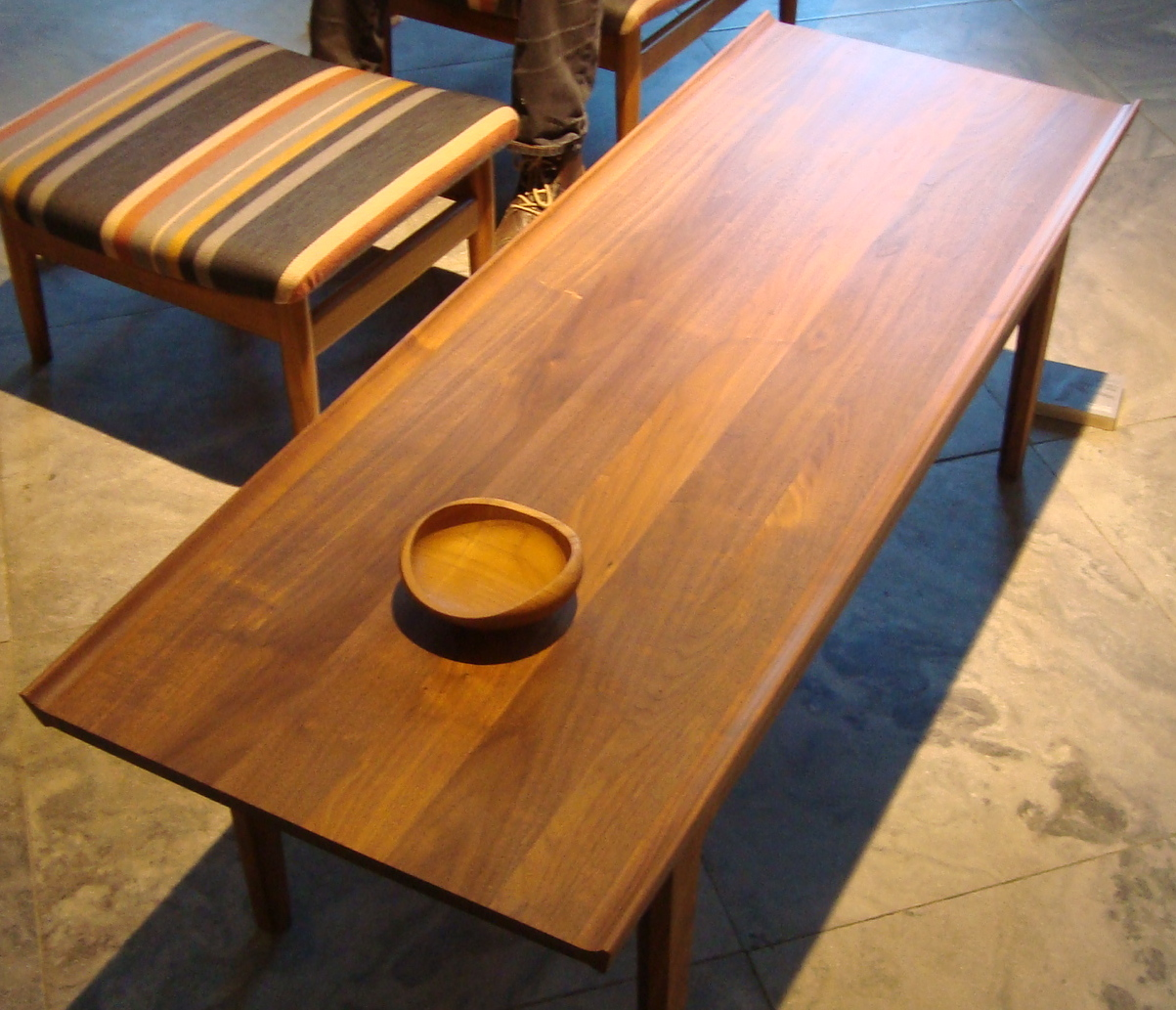 The BO101 table from 1953. Design by Finn Juhl